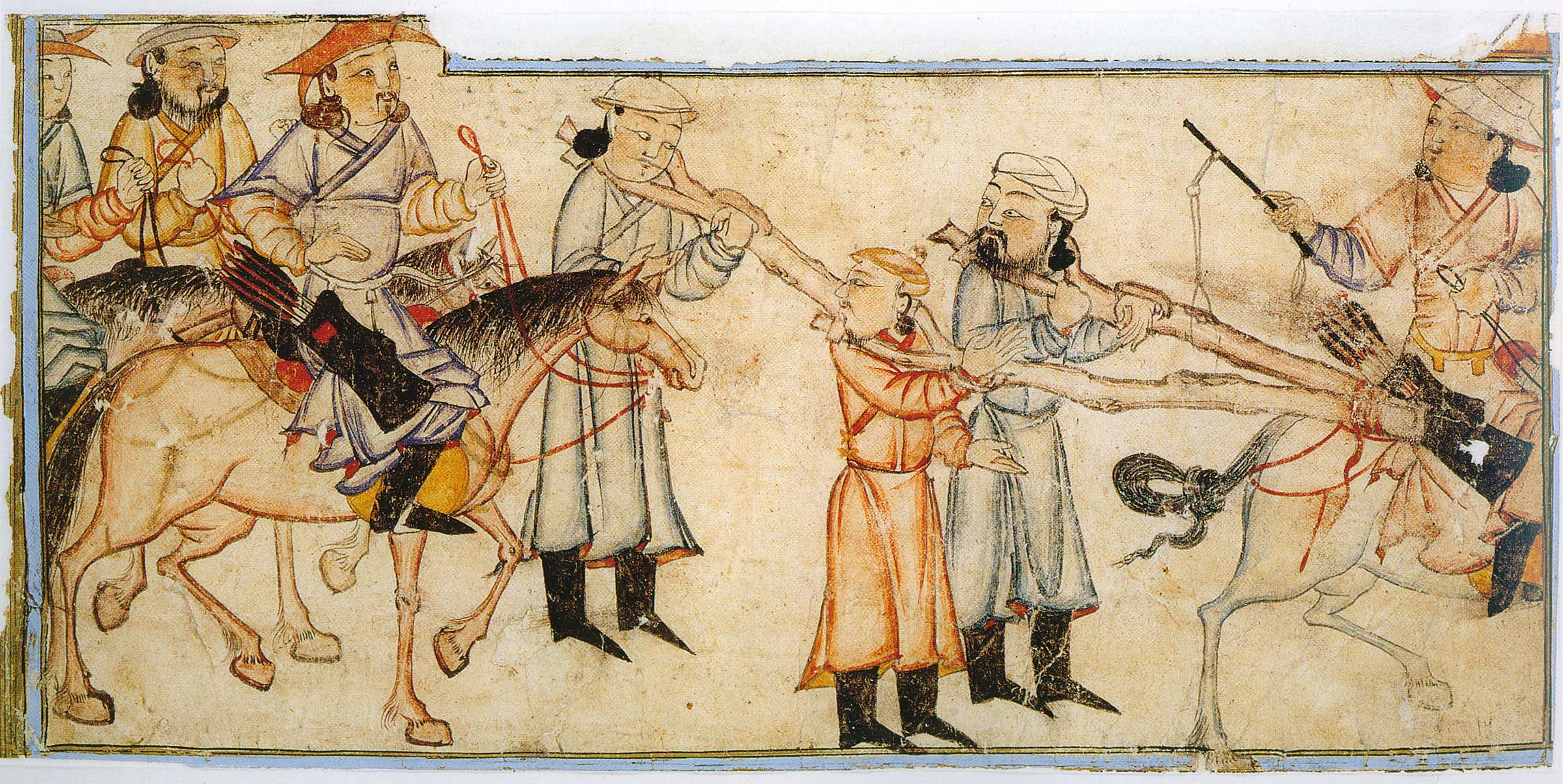 Mongol riders with prisoners. Illustration of Rashid-ad-Din's Gami' at-tawarih. Tabriz (?), 1st quarter of 14th century. Water colours on paper. Original size: 11.6 cm x 25.8 cm. Staatsbibliothek Berlin, Orientabteilung, Diez A fol. 70, p. 19 no. 2. The prisoners are presumably robbers and similar criminals.